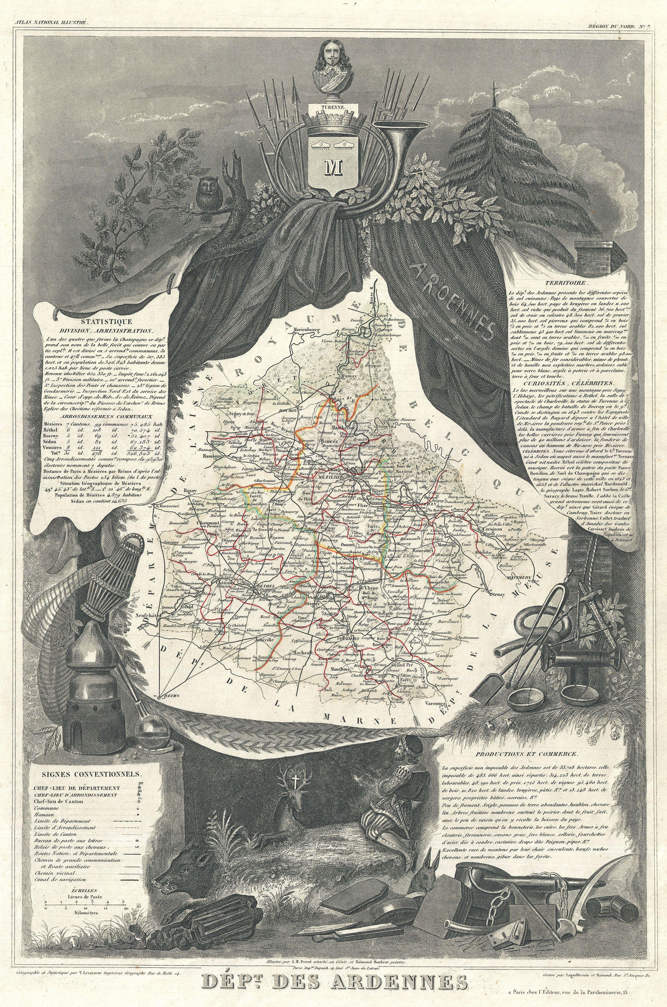 This is a fascinating 1857 map of the French department of Ardennes, France. Part of France's important Champagne producing region. The whole is surrounded by elaborate decorative engravings designed to illustrate both the natural beauty and trade richness of the land. There is a short textual history of the regions depicted on both the left and right sides of the map. Published by V. Levasseur in the 1852 edition of his Atlas National de la France Illustree.